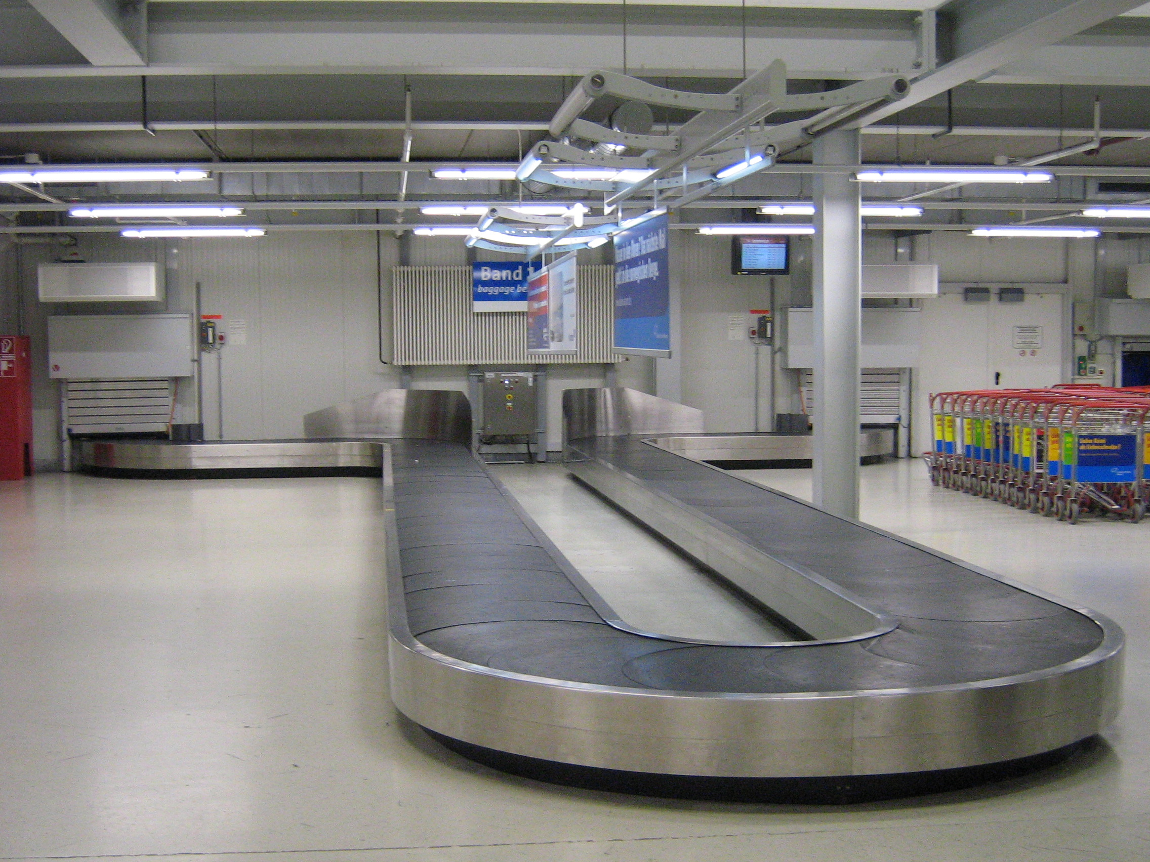 Baggage reclaim at Frankfurt-Hahn Airport in Germany